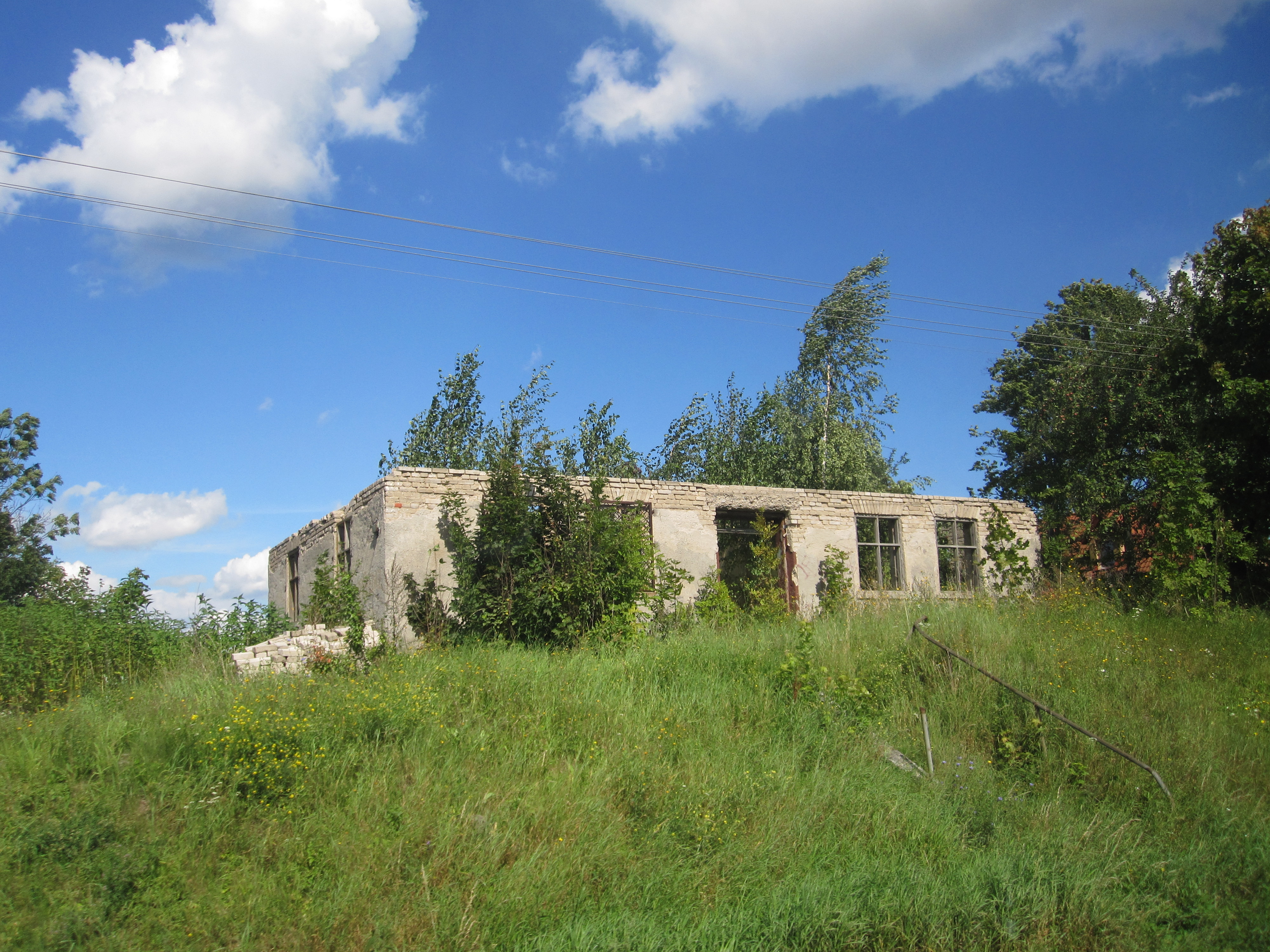 Ruined house in Inulec